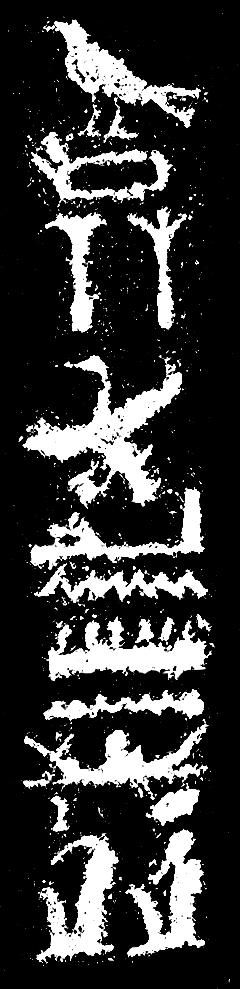 Inscription on the statue head of Paanmeni, Berlin Egyptian Museum, ÄM 253